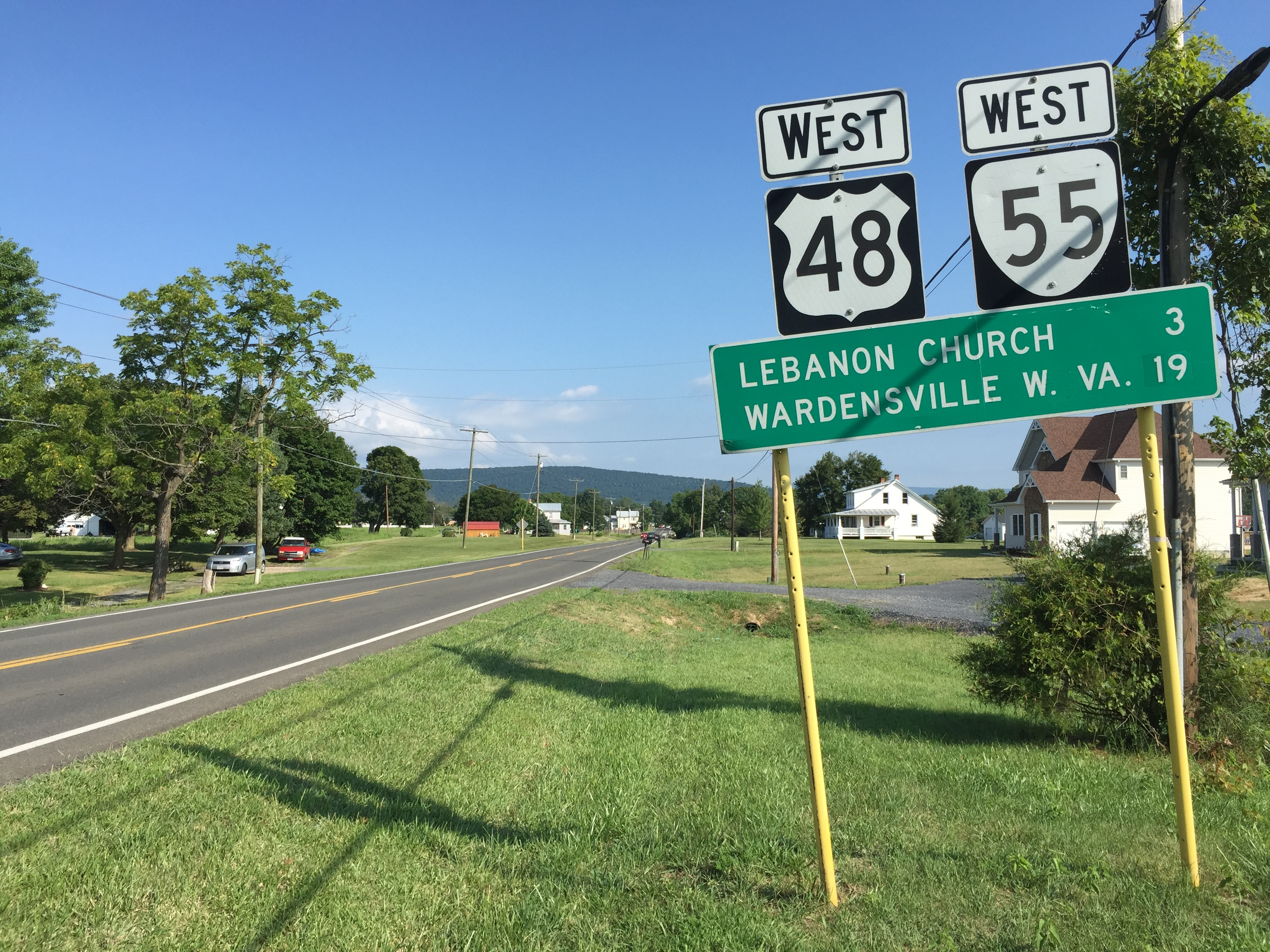 View west along U.S. Route 48 and Virginia State Route 55 (John Marshall Highway) east of Clary Road in Clary, Shenandoah County, Virginia